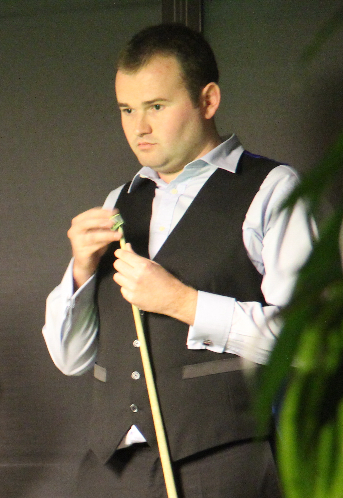 Mark Joyce beim Paul Hunter Classic 2011